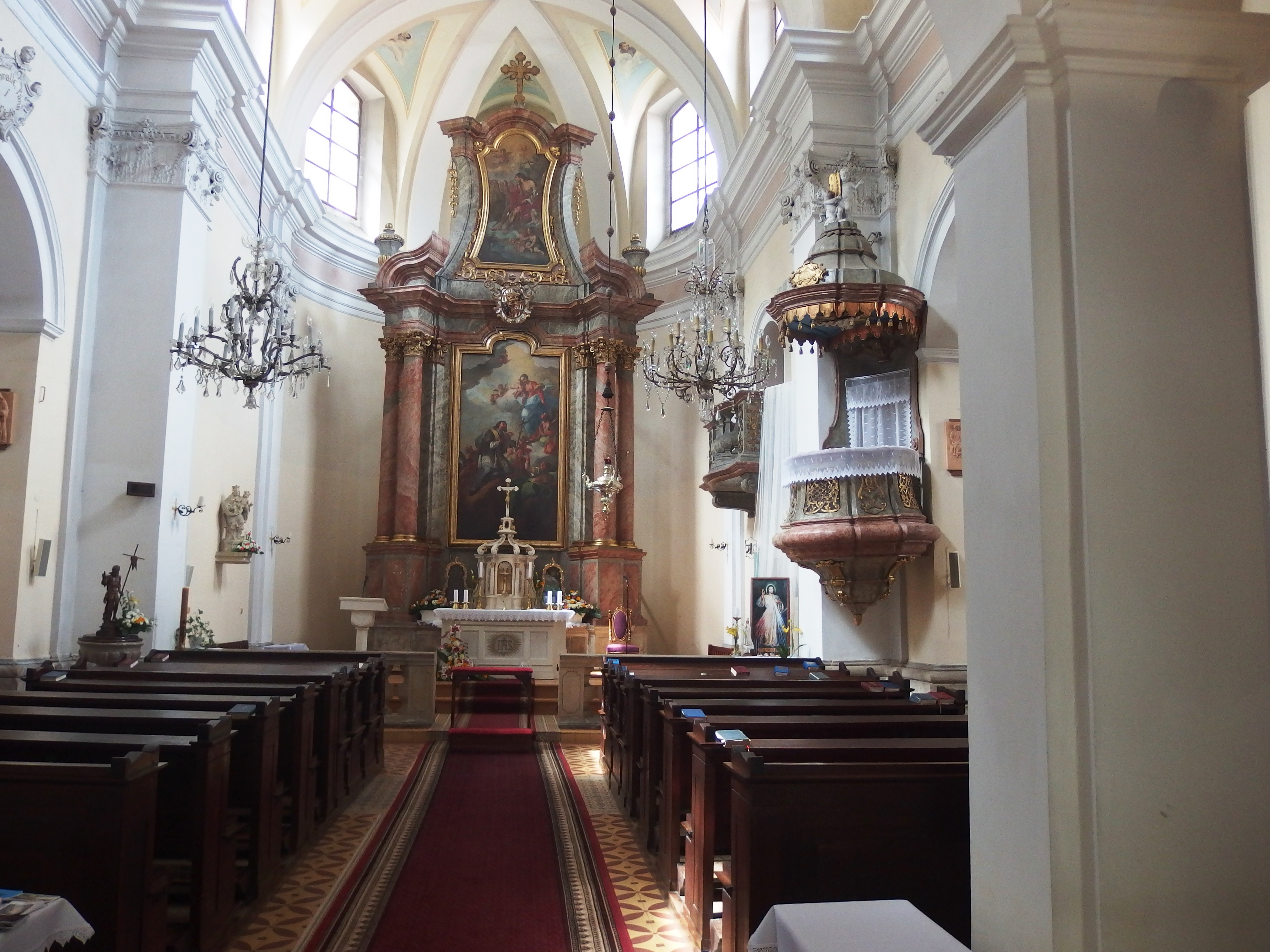 Pohořelice, Zlín District, Czech Republic.